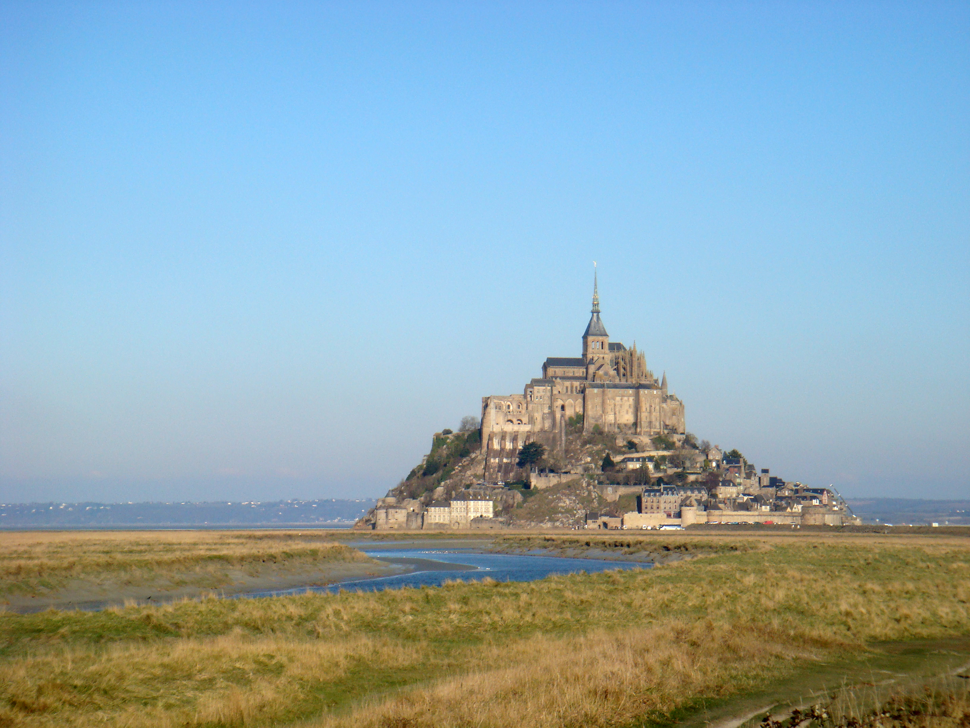 Mont Saint Michel